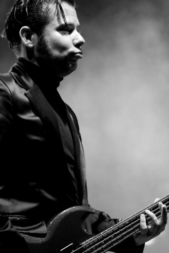 Alex Callier of Hooverphonic at Smich Off Summer 2007 festival in Prague. Photo by Filip Drabek.